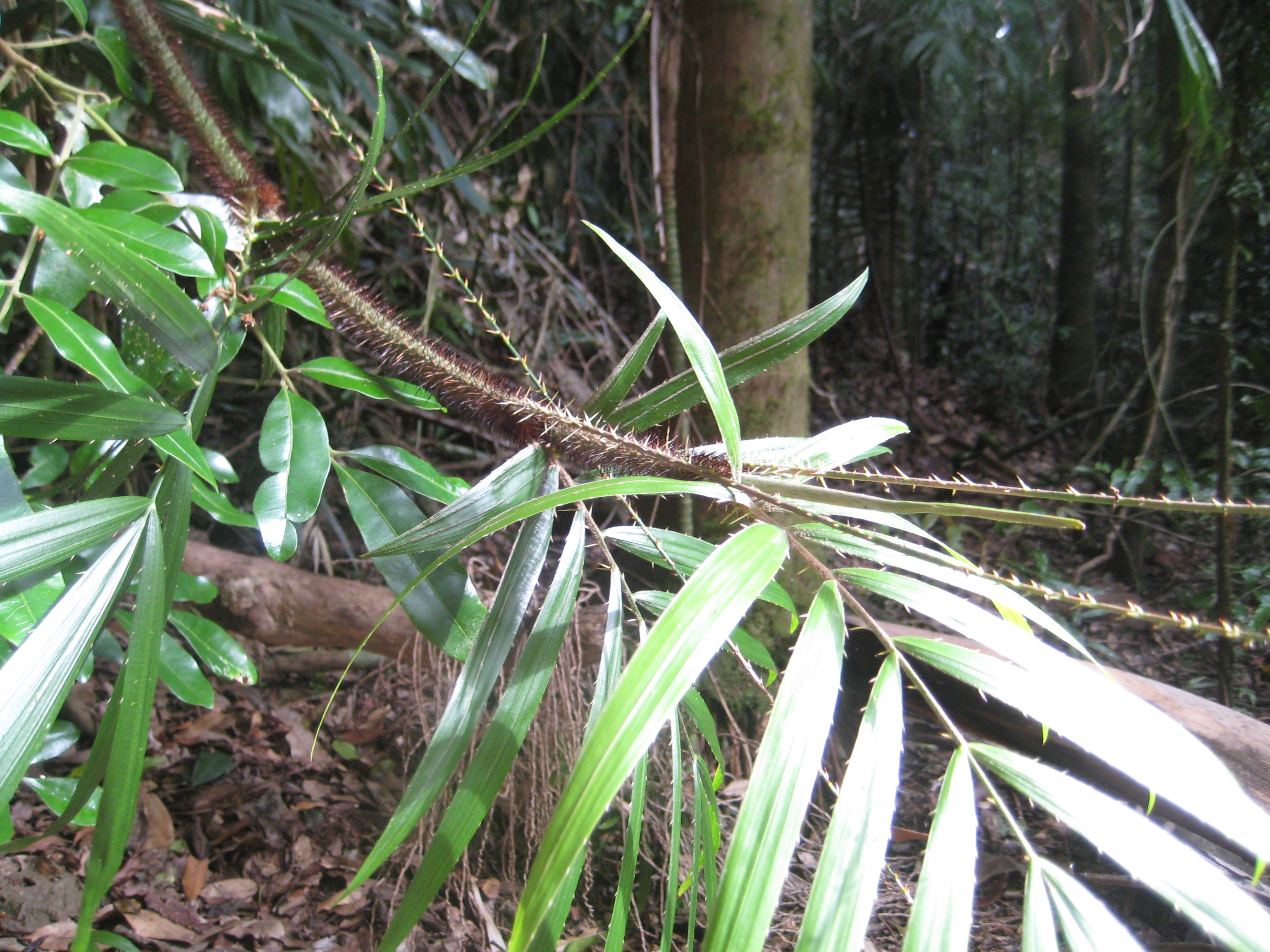 Calamus Muelleri. Photo Taken in Nightcap National Park, NSW, Australia, near Mt. Nardi.